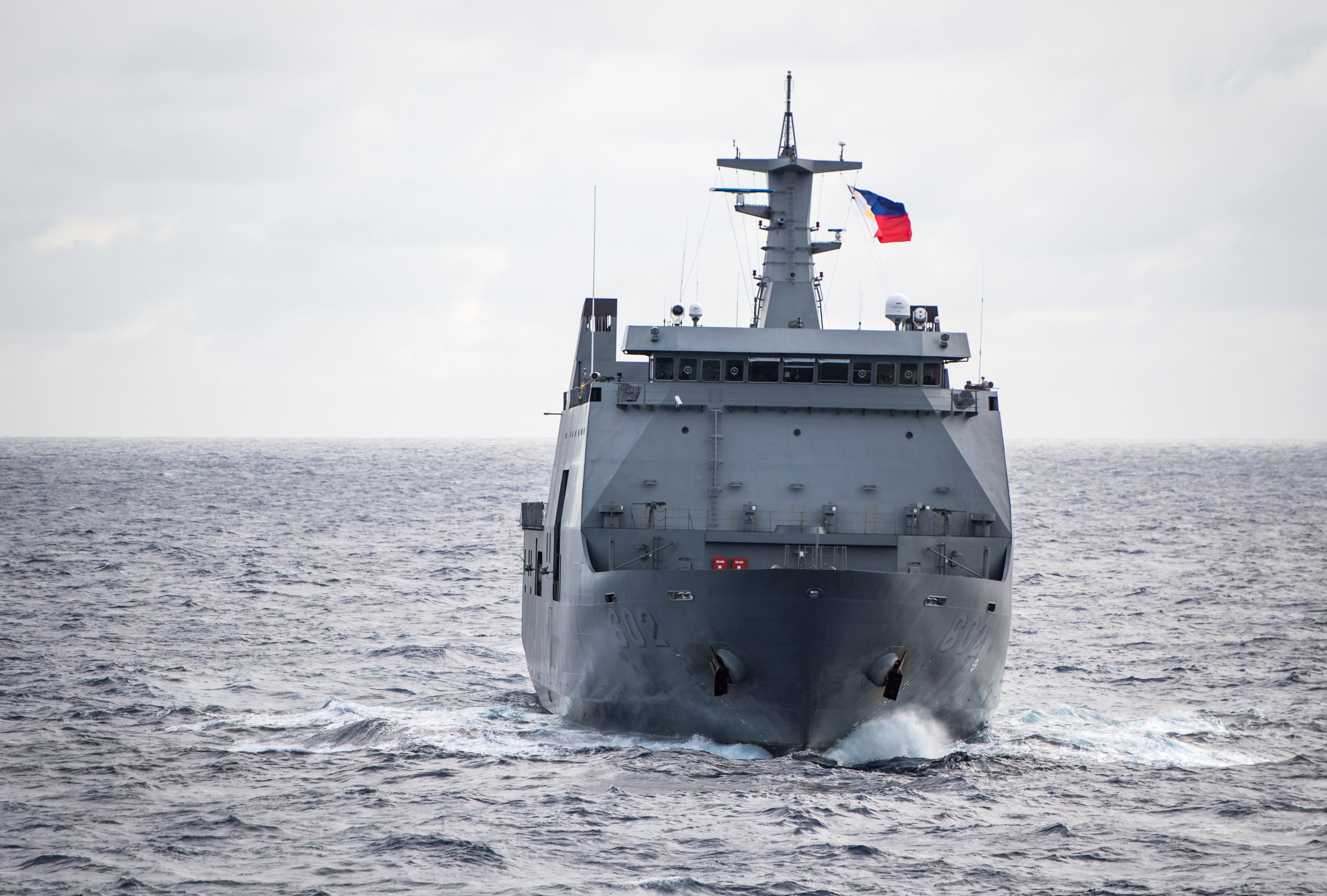 180726-N-LI768-1308 PACIFIC OCEAN (July 26, 2018) – The Philippine Navy landing platform dock BRP Davao Del Sur (LD 602) transits the Pacific Ocean while underway during the Rim of the Pacific (RIMPAC) exercise, July 26. Twenty-five nations, 46 ships, five submarines, and about 200 aircraft and 25,000 personnel are participating in RIMPAC from June 27 to Aug. 2 in and around the Hawaiian Islands and Southern California. The world's largest international maritime exercise, RIMPAC provides a unique training opportunity while fostering and sustaining cooperative relationships among participants critical to ensuring the safety of sea lanes and security of the world's oceans. RIMPAC 2018 is the 26th exercise in the series that began in 1971. (U.S. Navy photo by Mass Communication Specialist 2nd Class Devin M. Langer/Released)